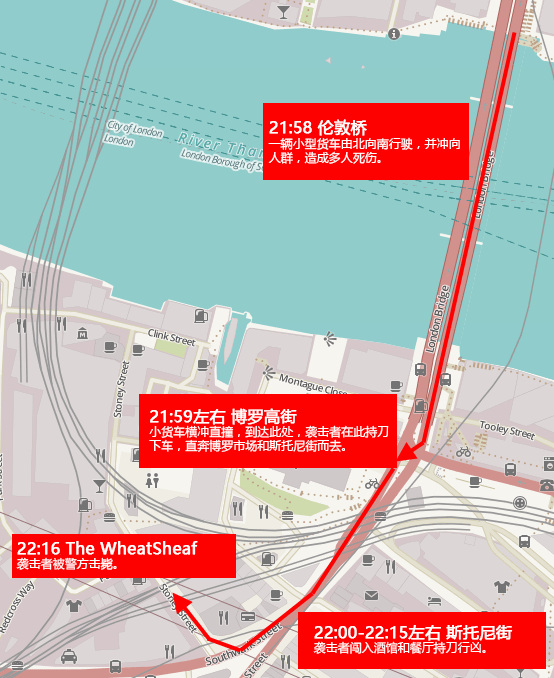 2017 London attack map - based on map at [1]